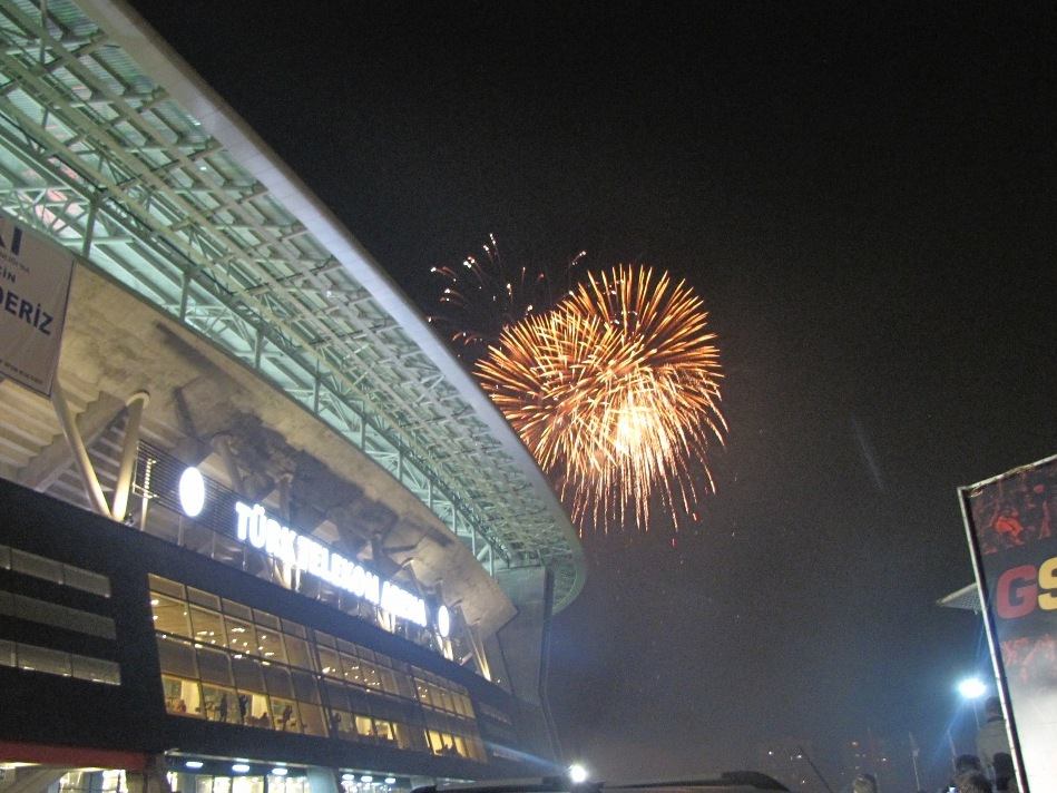 Ali Sami Yen Spor Kompleksi Türk Telekom Arena opening